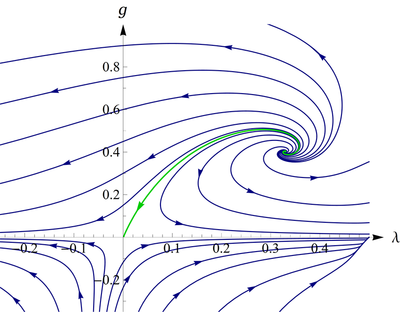 Phase portrait of Quantum Einstein Gravity (QEG) in the Einstein-Hilbert truncation, showing typical RG trajectories (blue) and the separatrix (green).